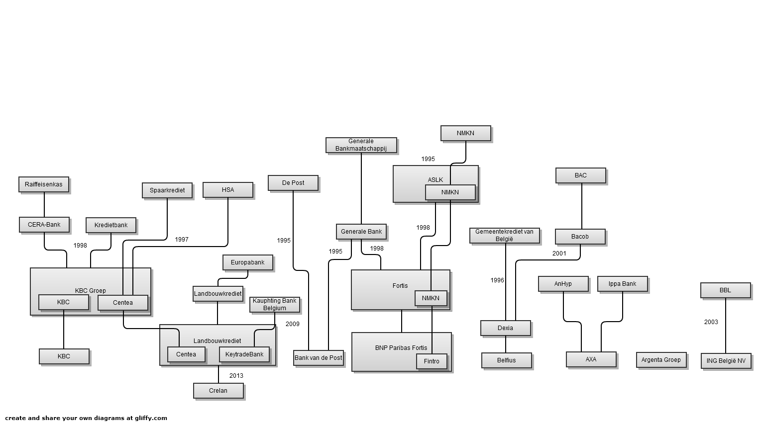 History of the main Belgian banks